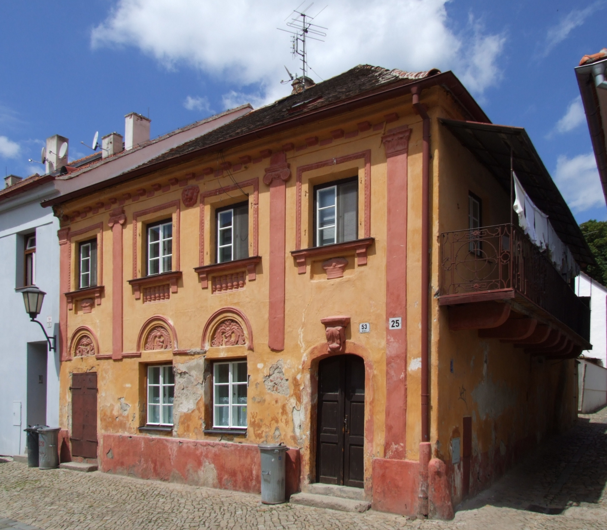 Jewish Quarter in Třebíč - house nr 25